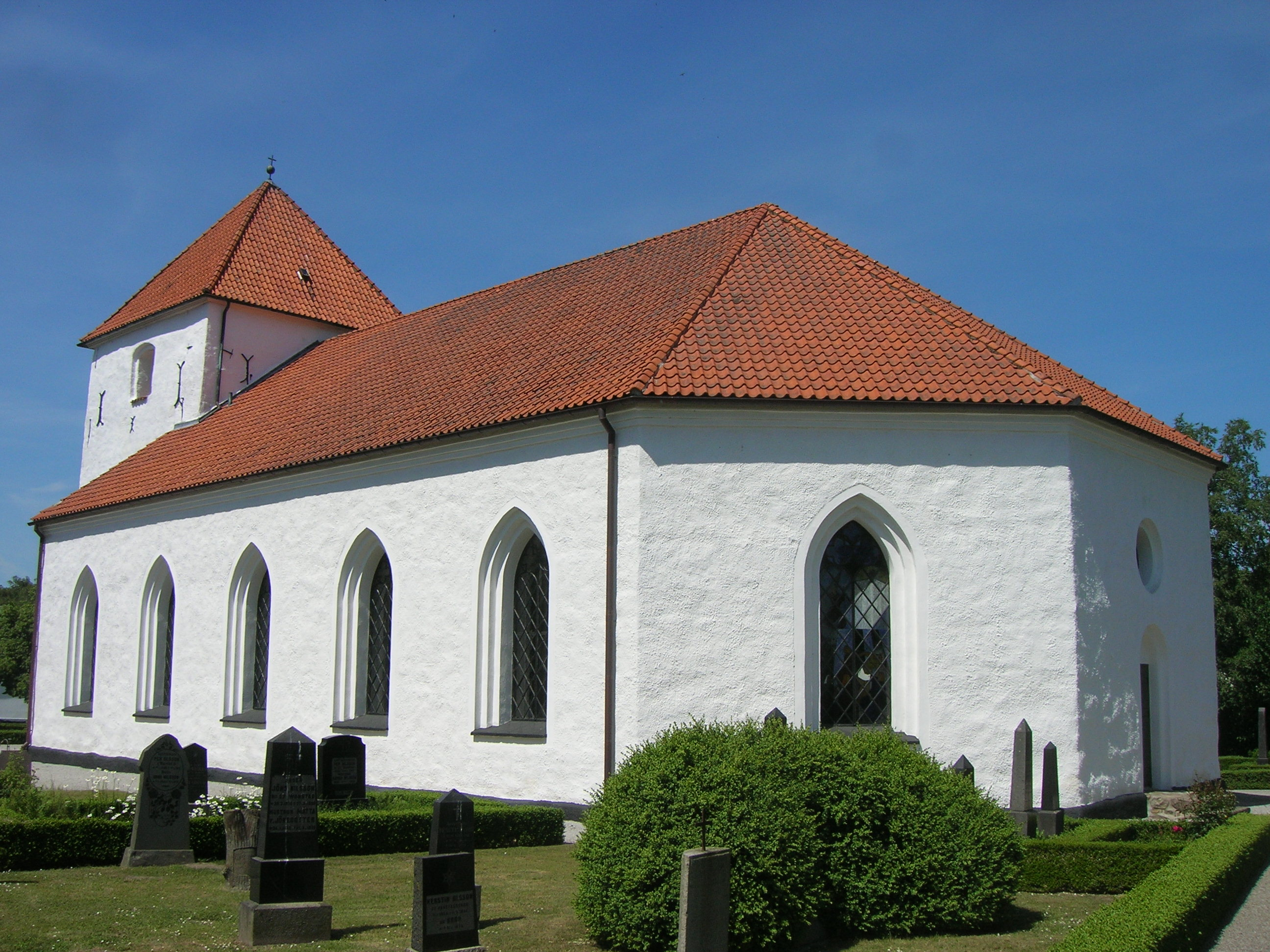 Vanstad Church, Sjöbo Municipality, Scania, Diocese of Lund, Sweden.